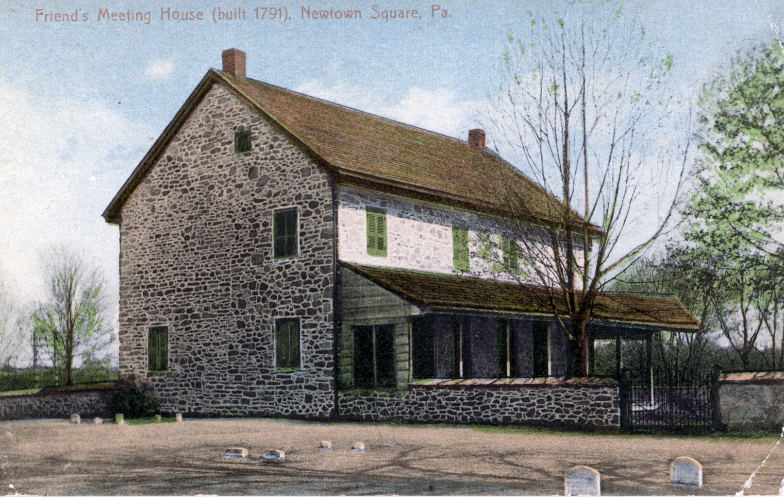 Newtown Square Friends Meeting, circa 1912; Newtown Square, Pennsylvnaia, USA